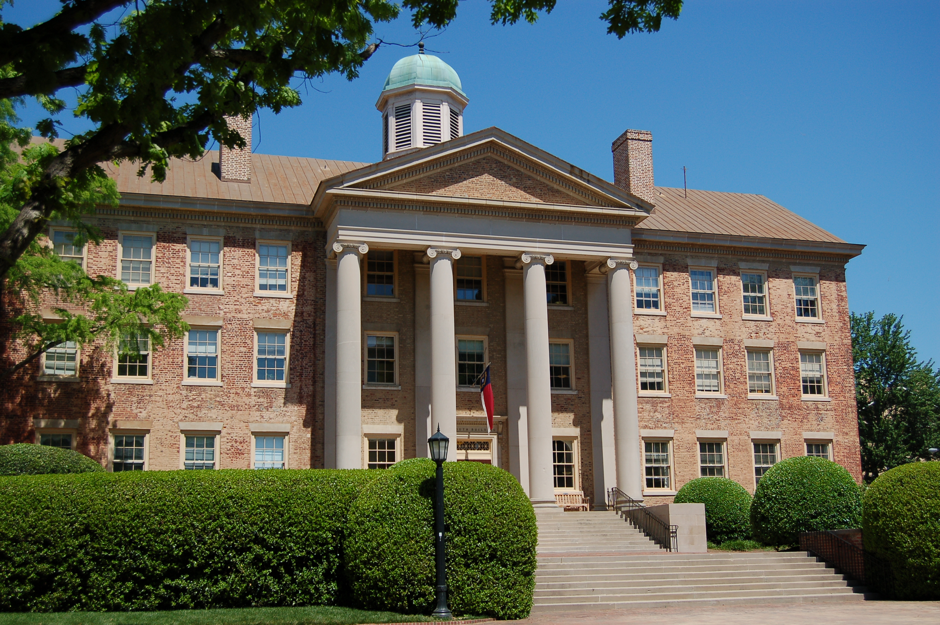 South Building at the University of North Carolina in Chapel Hill, North Carolina.